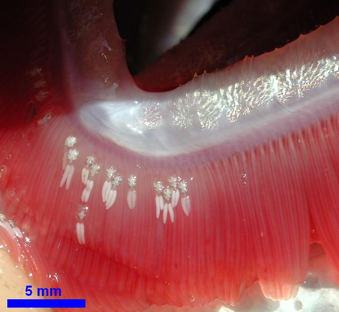 Ergasilus sp. females, each carrying one pair of eggs on gills of northern pike (Esox lucius) caught in a lake in southwest Germany.